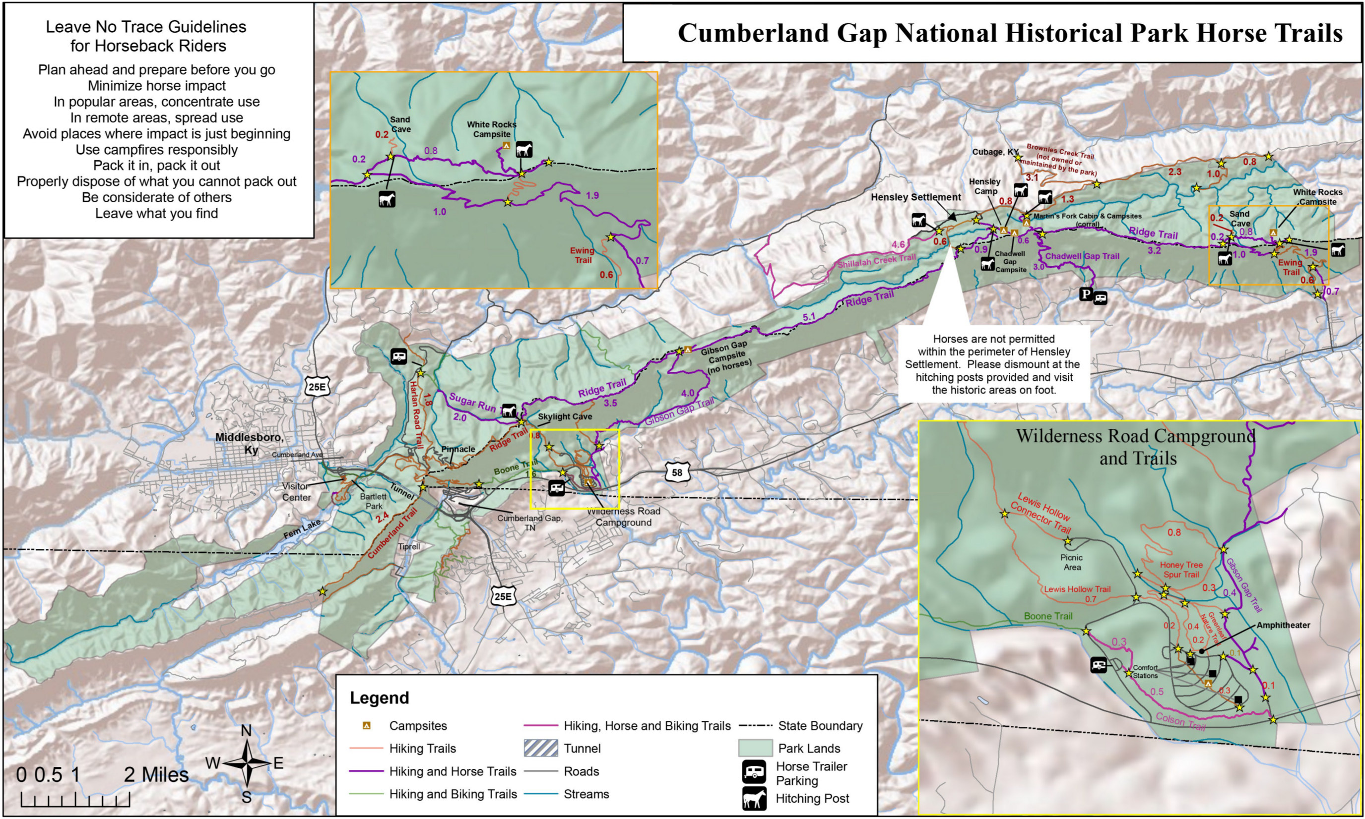 Cumberland Gap horse trail map, similar to the one above but instead focusing on features relevant to those riding horseback.